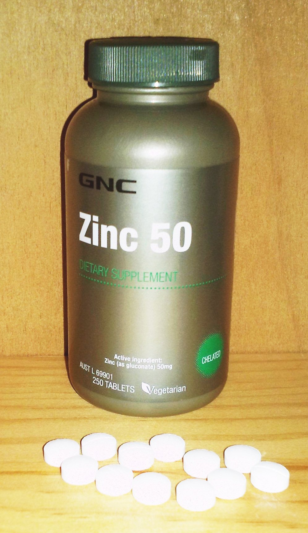 Zinc